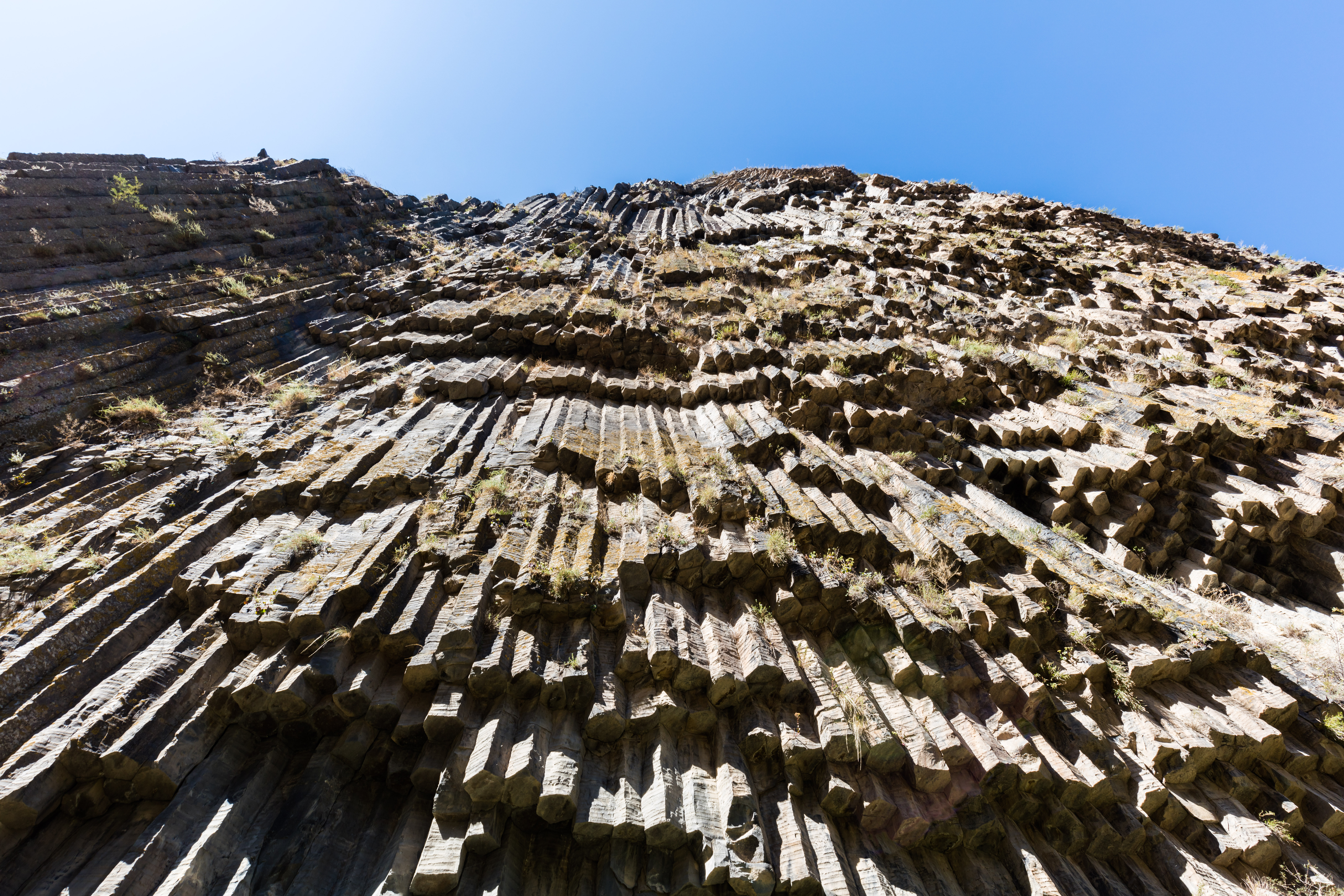 These well-preserved basalt columns are known as "Symphony of the Stones" and are located in the Garni Gorge, near Yerevan, capital city of Armenia. The columns are visible because they were carved out by the Goght River.